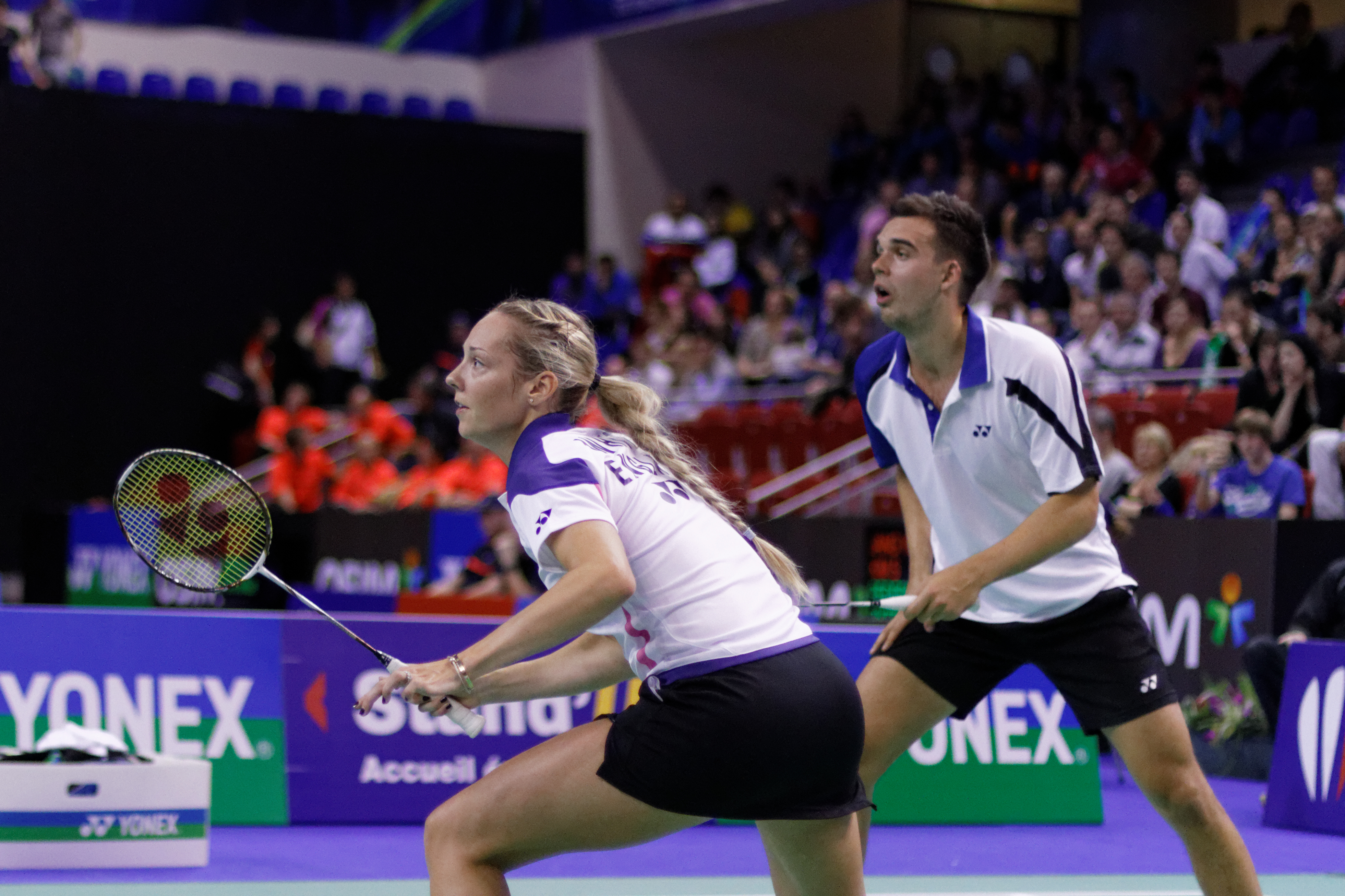 2013 French open. Mixed's doubles quarterfinal. Tontowi Ahmad - Liliyana Natsir vs Chris Adcock - Gabrielle White.